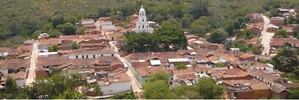 district of Los Santos